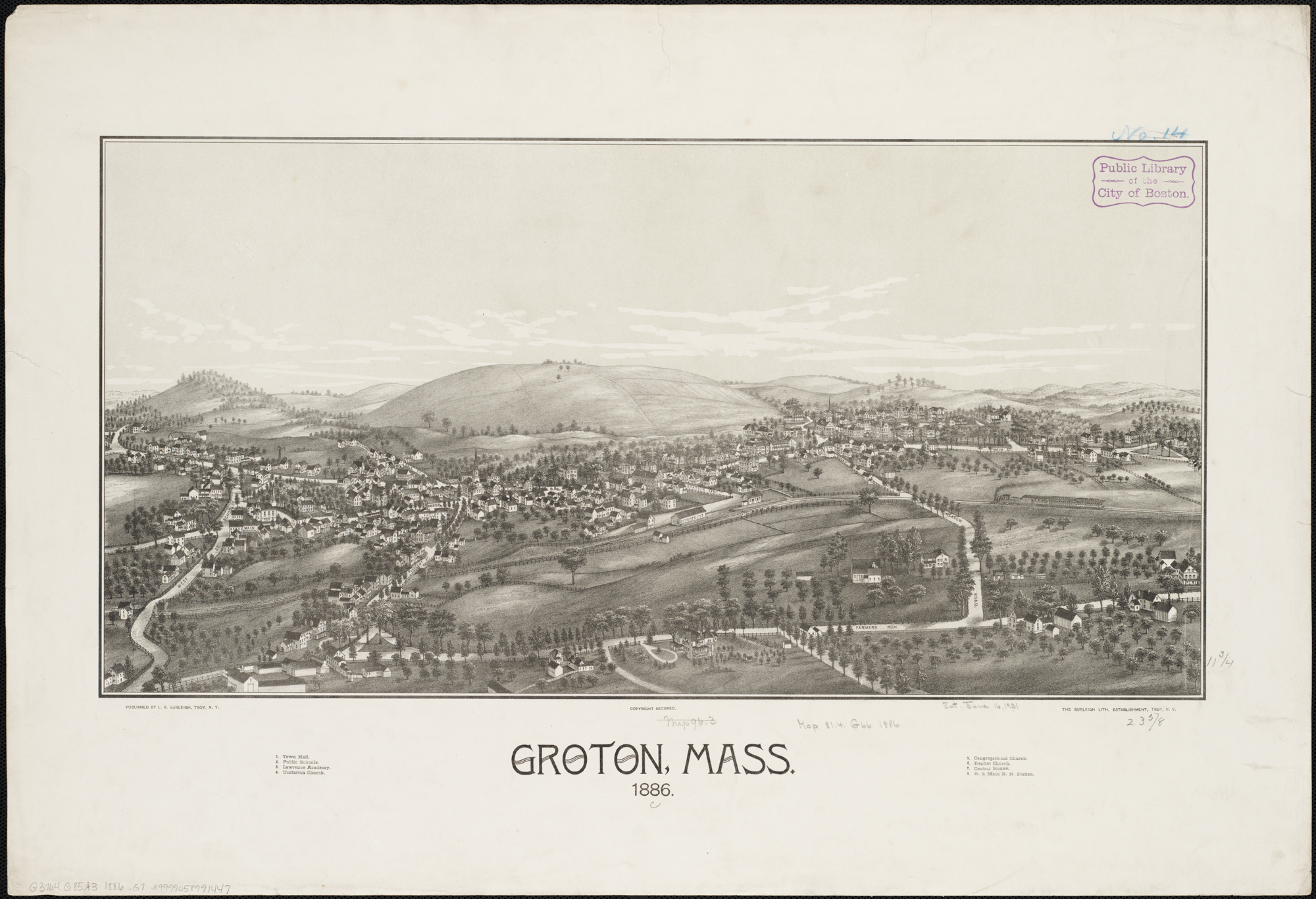 Zoom into this map at . Publisher: L.R. Burleigh Date: 1886 Location: Groton (Mass. : Town) Scale: Not drawn to scale. Call Number: G3764.G85A3 1886.G7